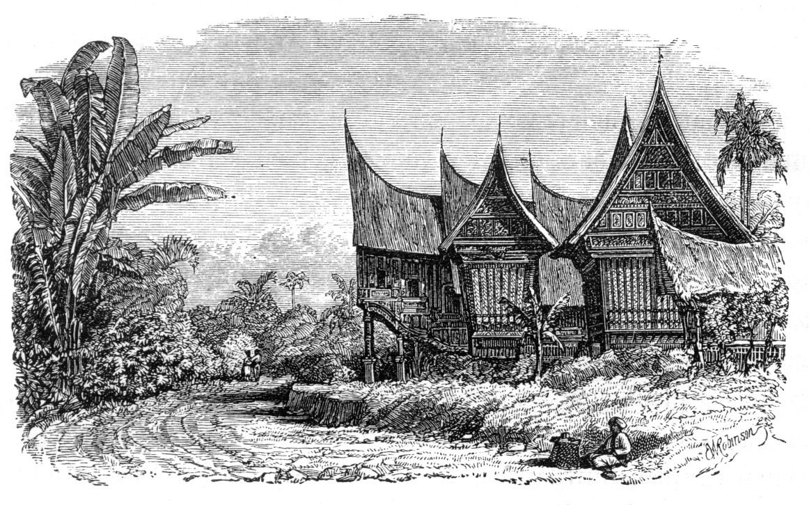 Caption reads "Chief's House and Rice-shed in a Sumatran Village" (from a photograph).